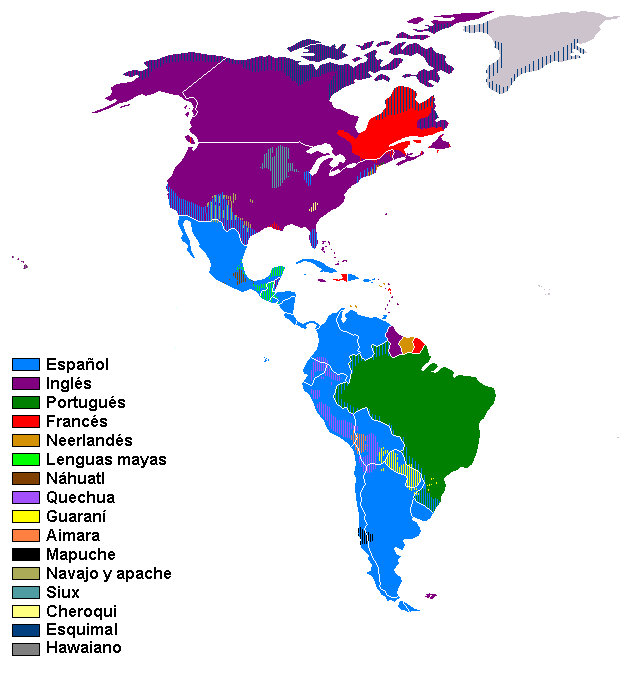 Idiomas más hablados y más importantes de América.